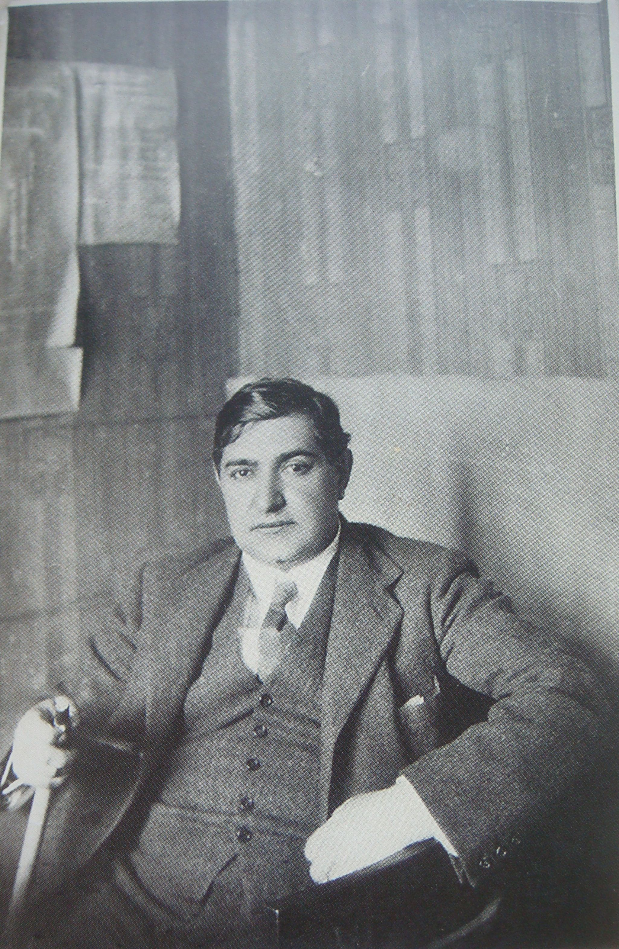 Artur Anatra, Russian airplane manufacture